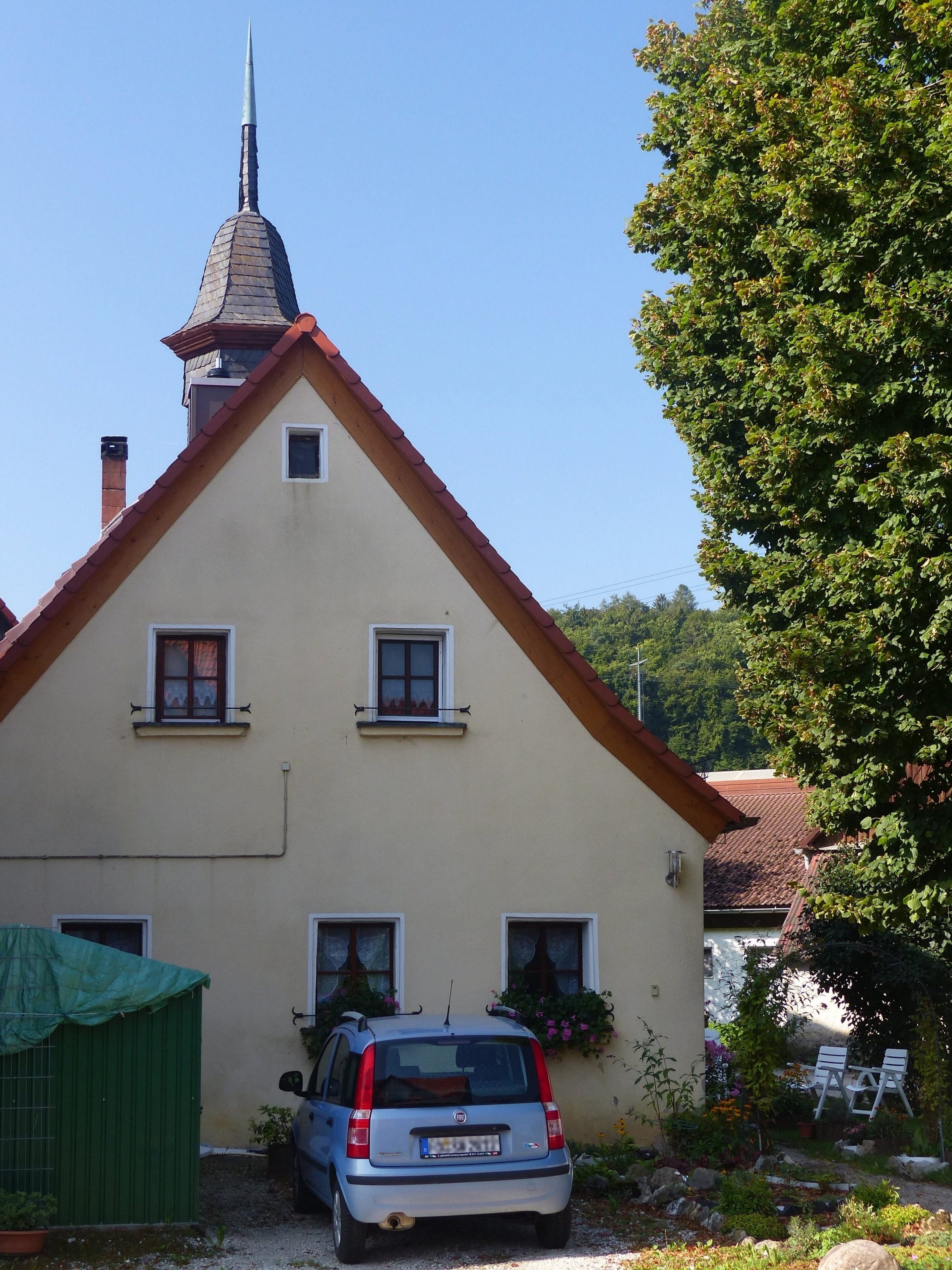 The former community house of the village Egloffsteinerhüll, a district of the municipality of Egloffstein.